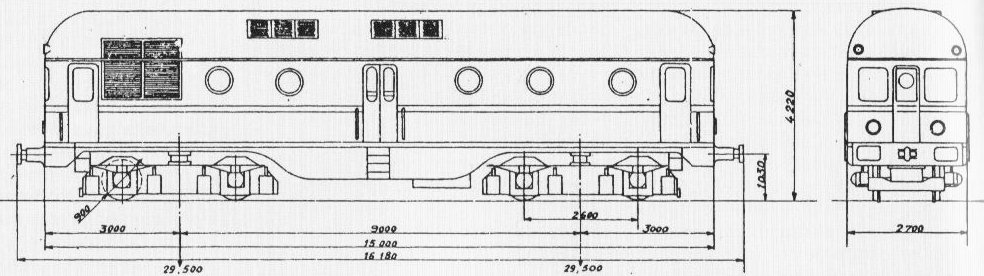 Drawing of Renault gas turbine locomotive SNCF 040 GA 1; 59 t, 16.180 m, 1000 hp, 125 km/h.